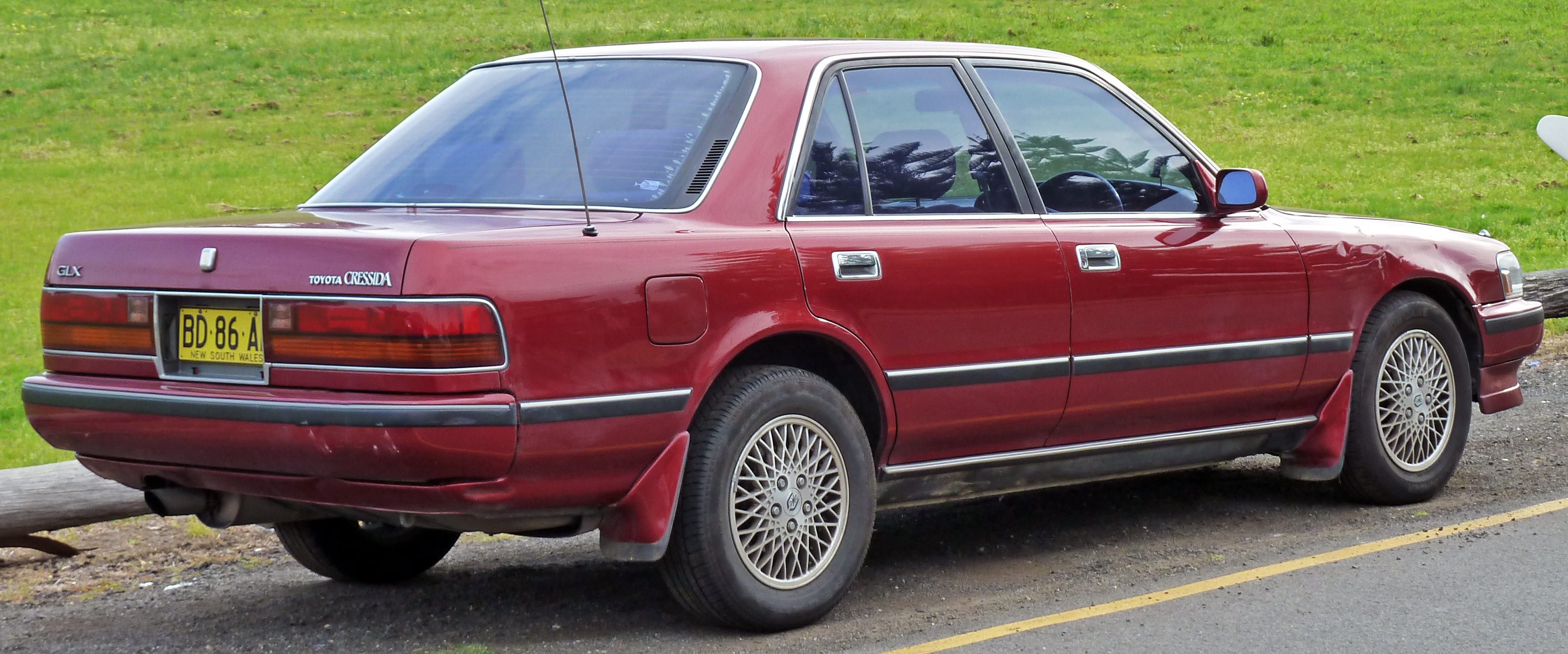 1990 Toyota Cressida (MX83R) GLX sedan. This is the pre-facelift 1988–1990 model, but fitted with alloy wheels from the updated 1990–1993 GLX. Photographed in Sans Souci, New South Wales, Australia.